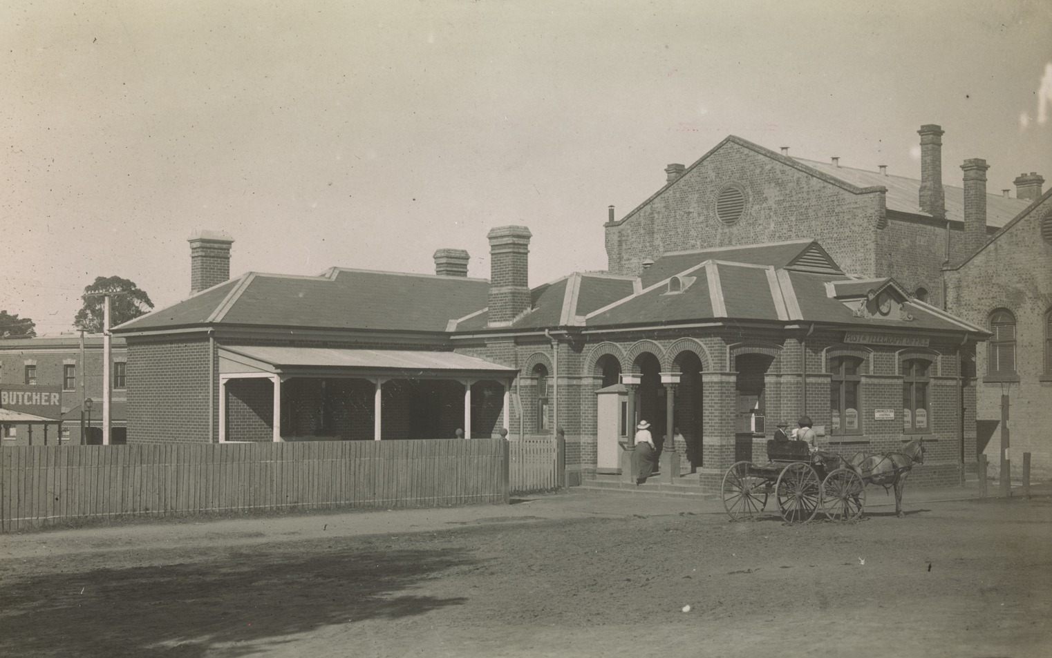 Old Dandenong Post Office at the turn of the century